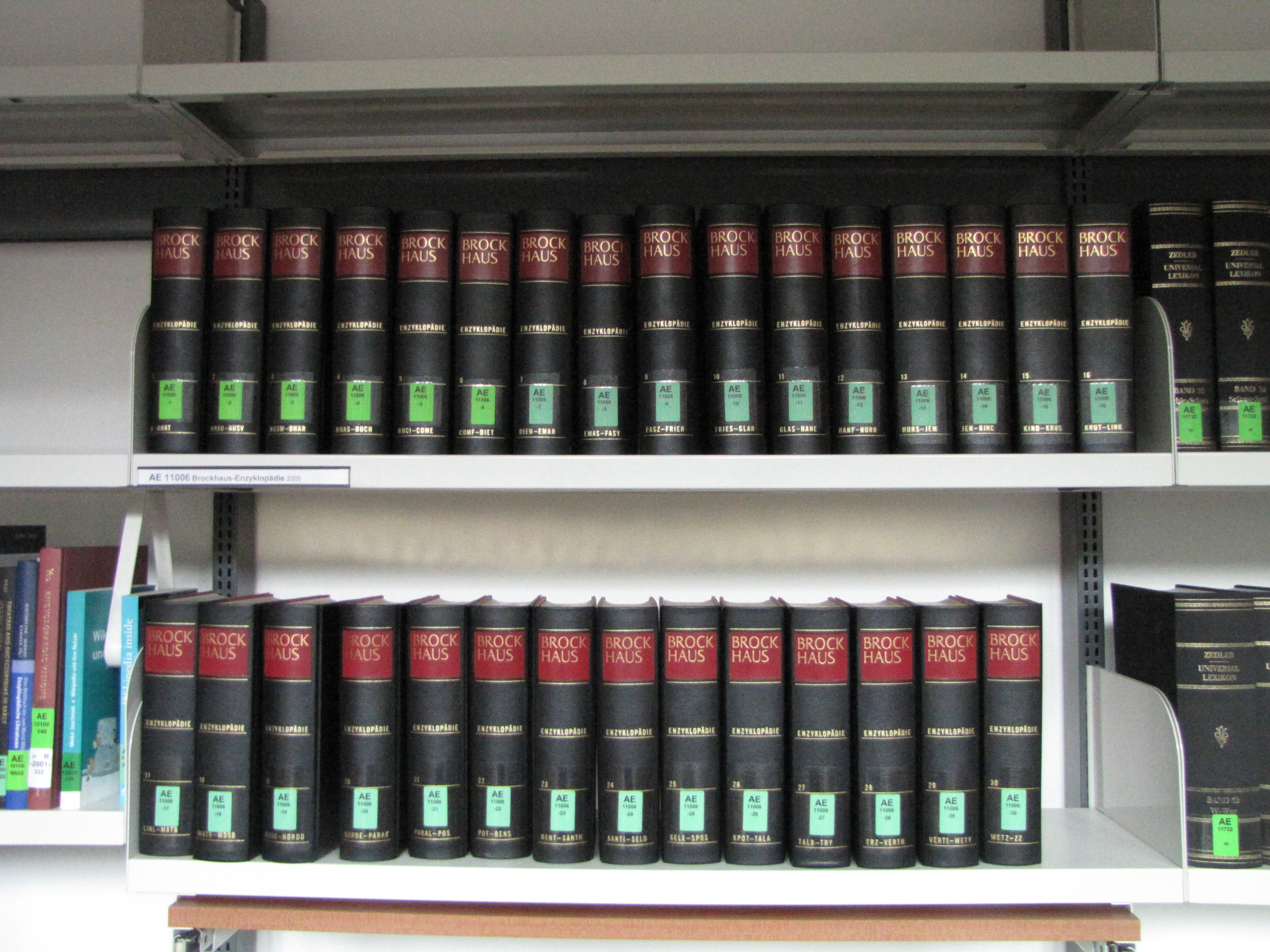 Critical Point of View (CPOV). Leipzig, September 2010. Bibliotheca Albertina.